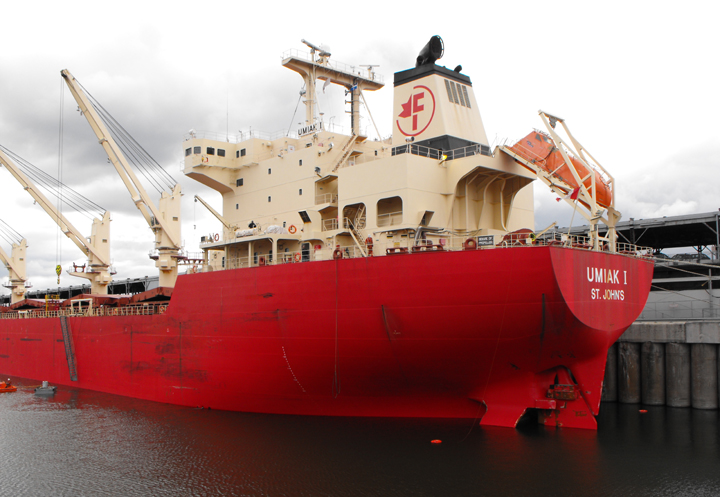 MV Umiak I in Montreal Harbor 2009 IMO Number: 9334715 MMSI Number: 316013340 Callsign: XJAR Length: 178 m Beam: 27 m